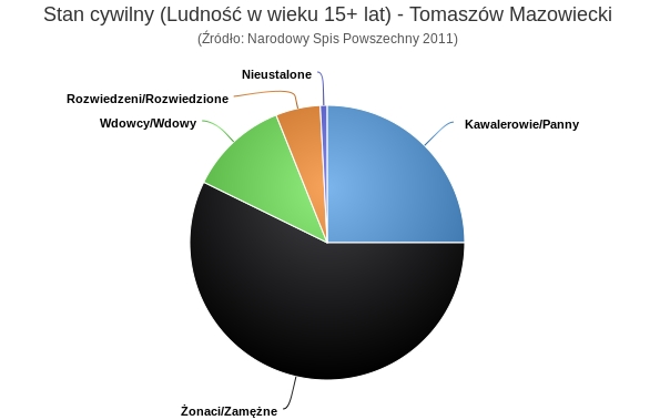 Stan cywilny osób w wieku 15 + Tomaszów Mazowiecki